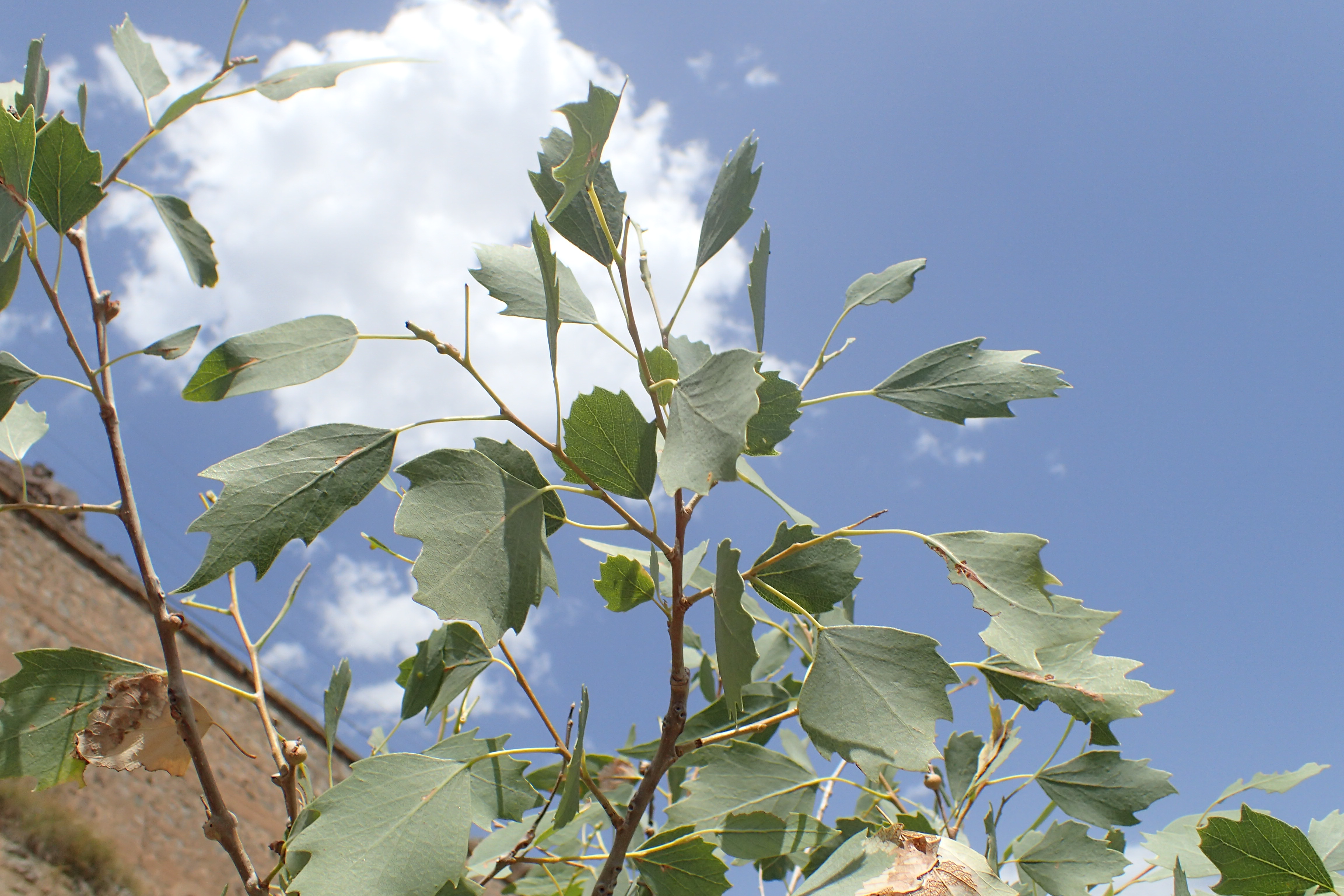 Populus euphratica in Meghri (Armenia), near border with Iran